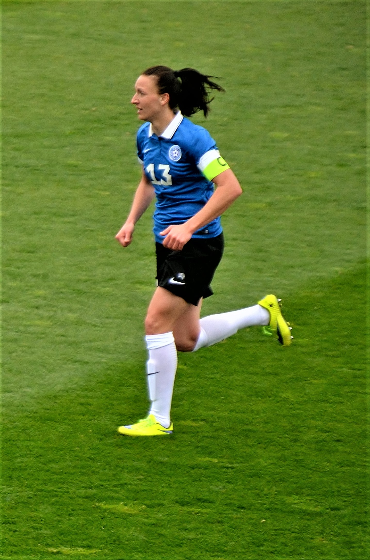 Kristina Bannikova playing for Estonia women's national football team in the friendly away match against Turkey at TFF Riva Facility on 7 April 2018.